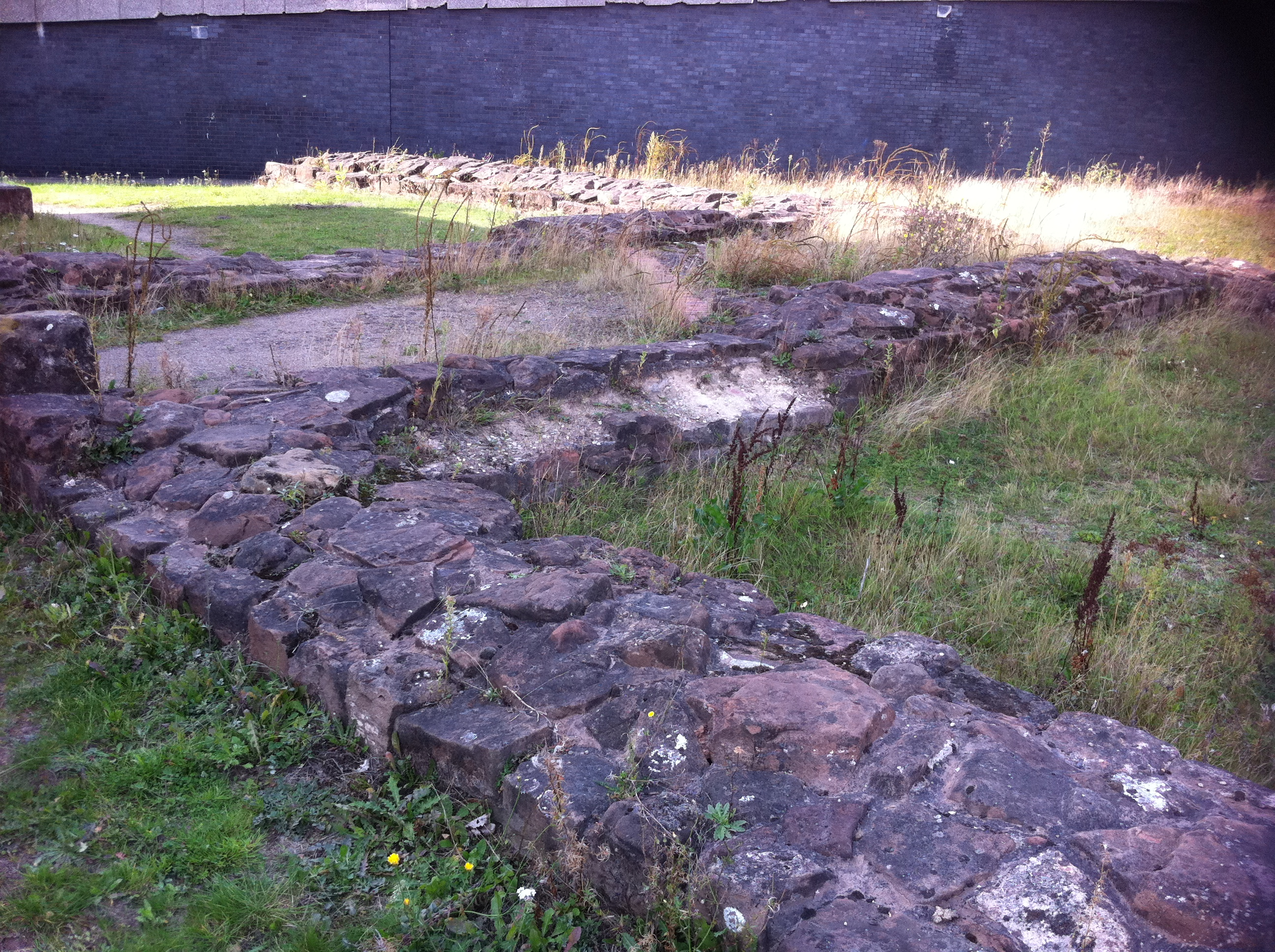 Photograph taken during the GLAM/Herbert "Backstage Pass tour" at The Herbert Art Gallery and Museum, Coventry